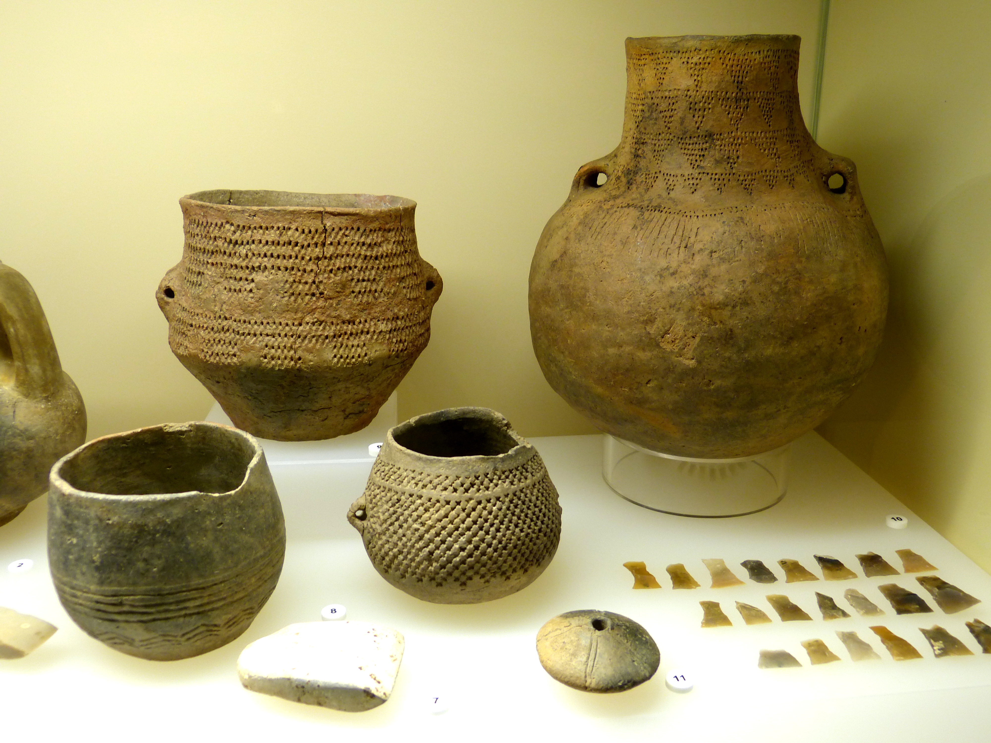 Brandenburg an der Havel ( Germany ) . Archaeological Museum of the state of Brandenburg - Stone Age Gallery:Neolithic pottery of the Havelland culture ( 3.100-2.700 BC ).